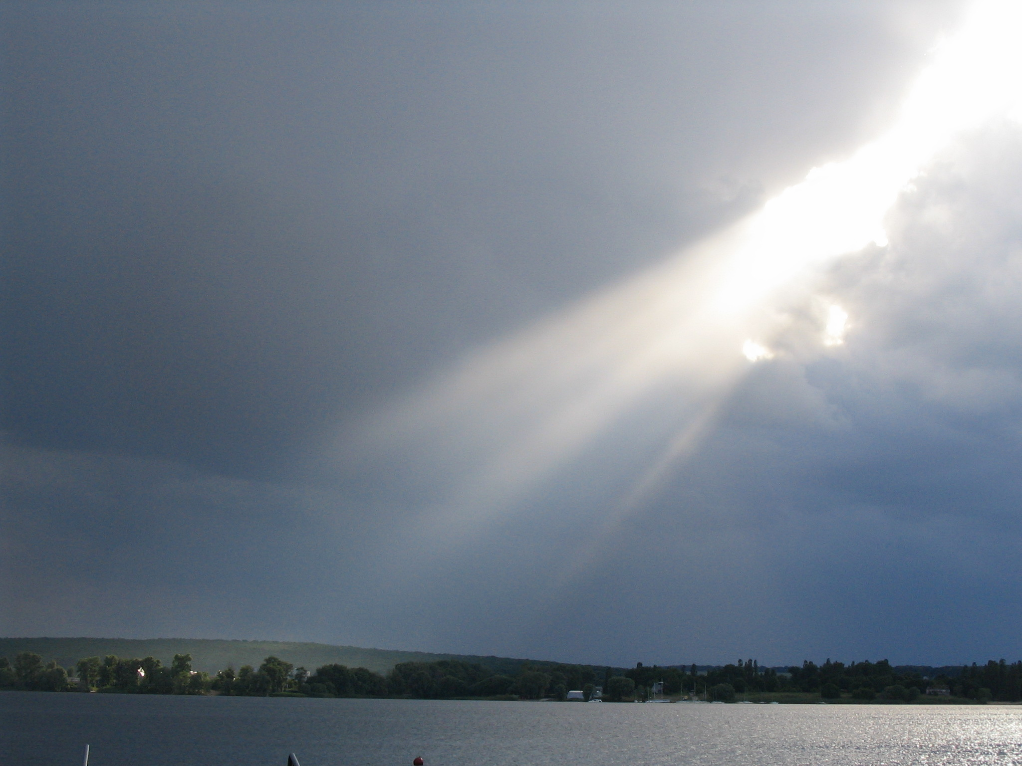 Pechenezhskoe reservoir near Staryj Saltov (Kharkiv Oblast, Ukraine)